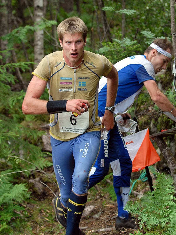 Emil Wingstedt at the World Cup event at Siggerud 2008.